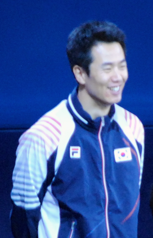 Silver Medalists - South Korea